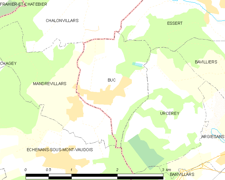 Map of French municipality Buc